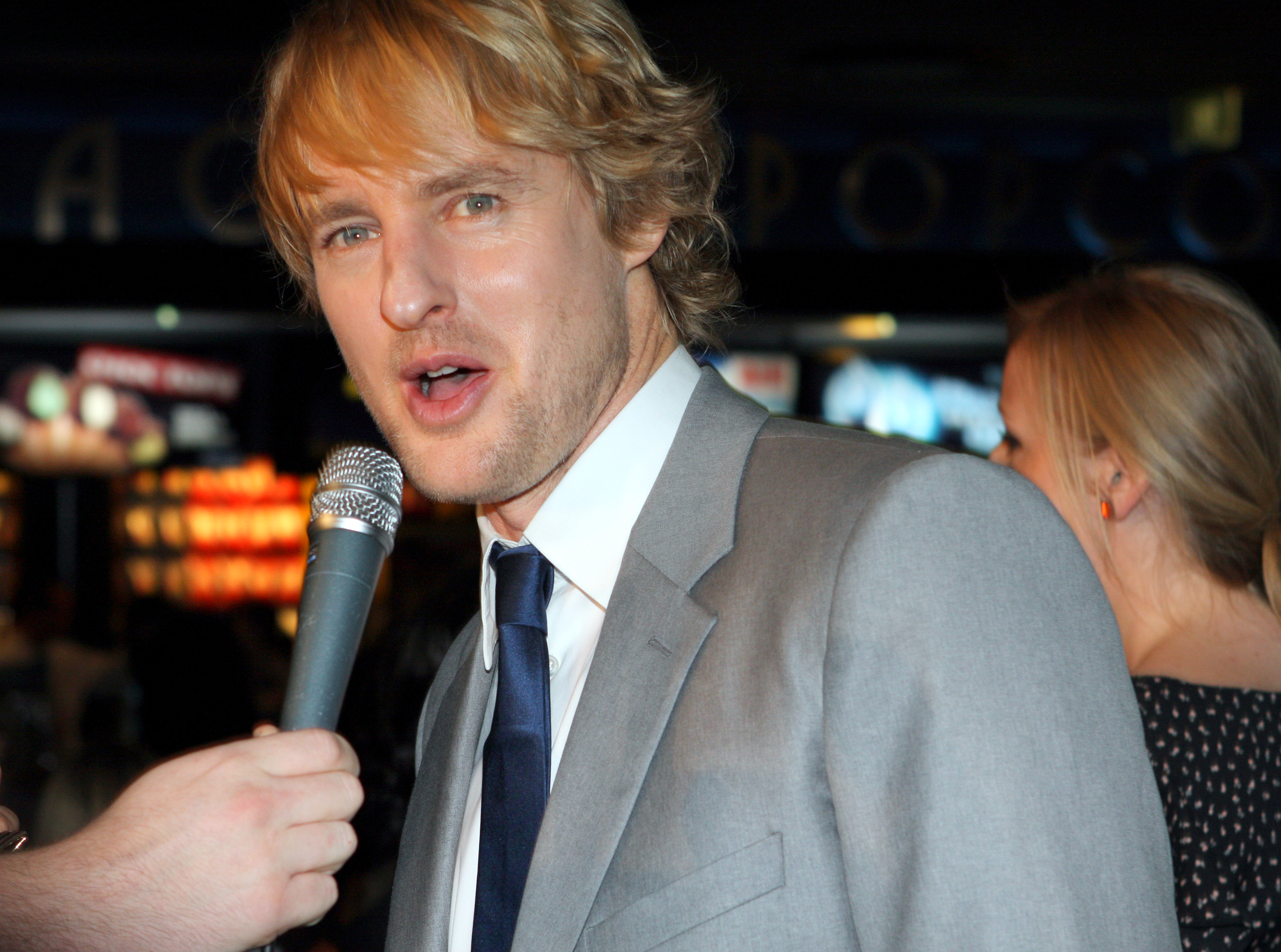 Owen Wilson at the Hall Pass Red Carpet 2011.